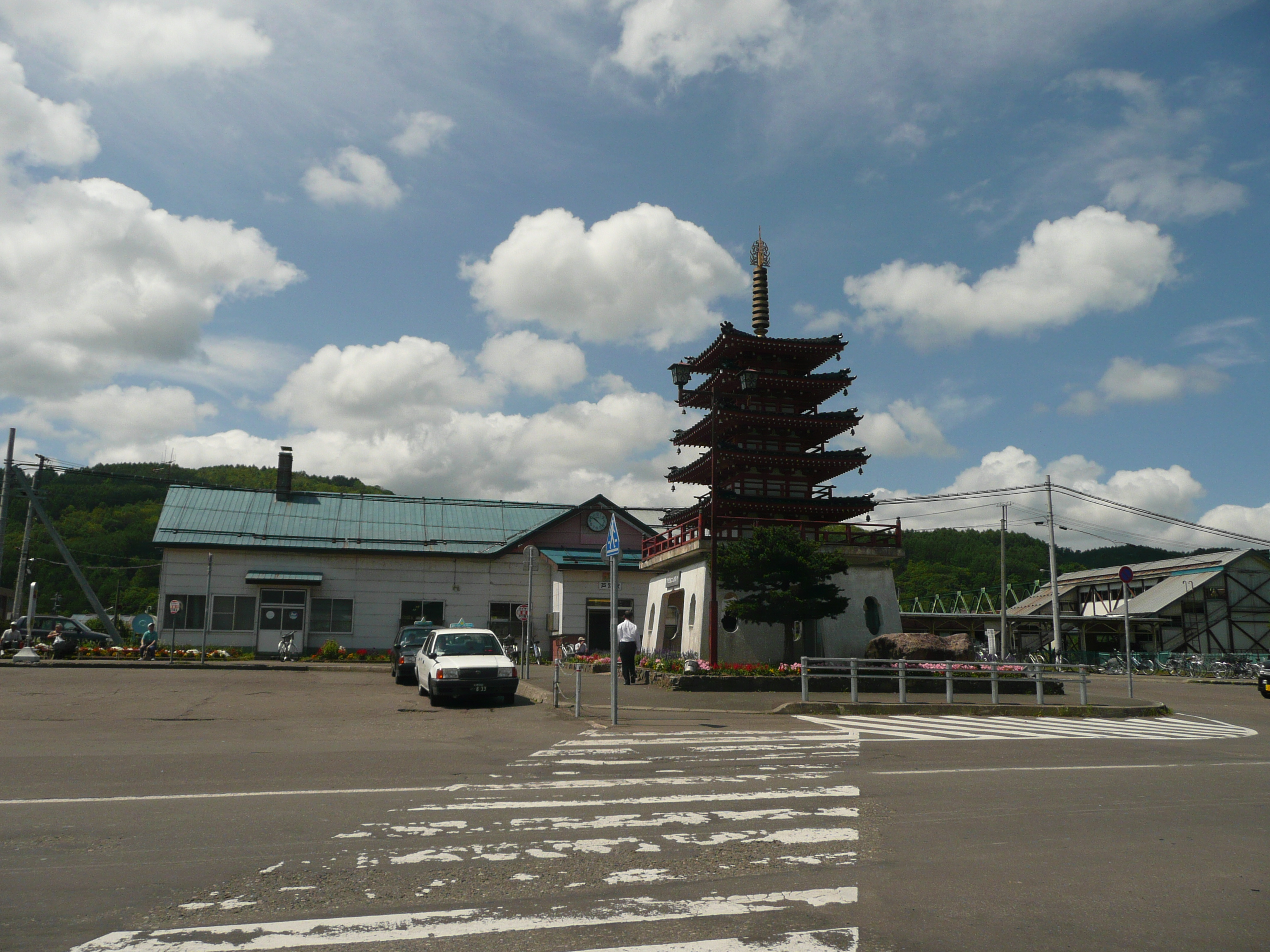 Ashibetsu station building, Hokkaido, Japan